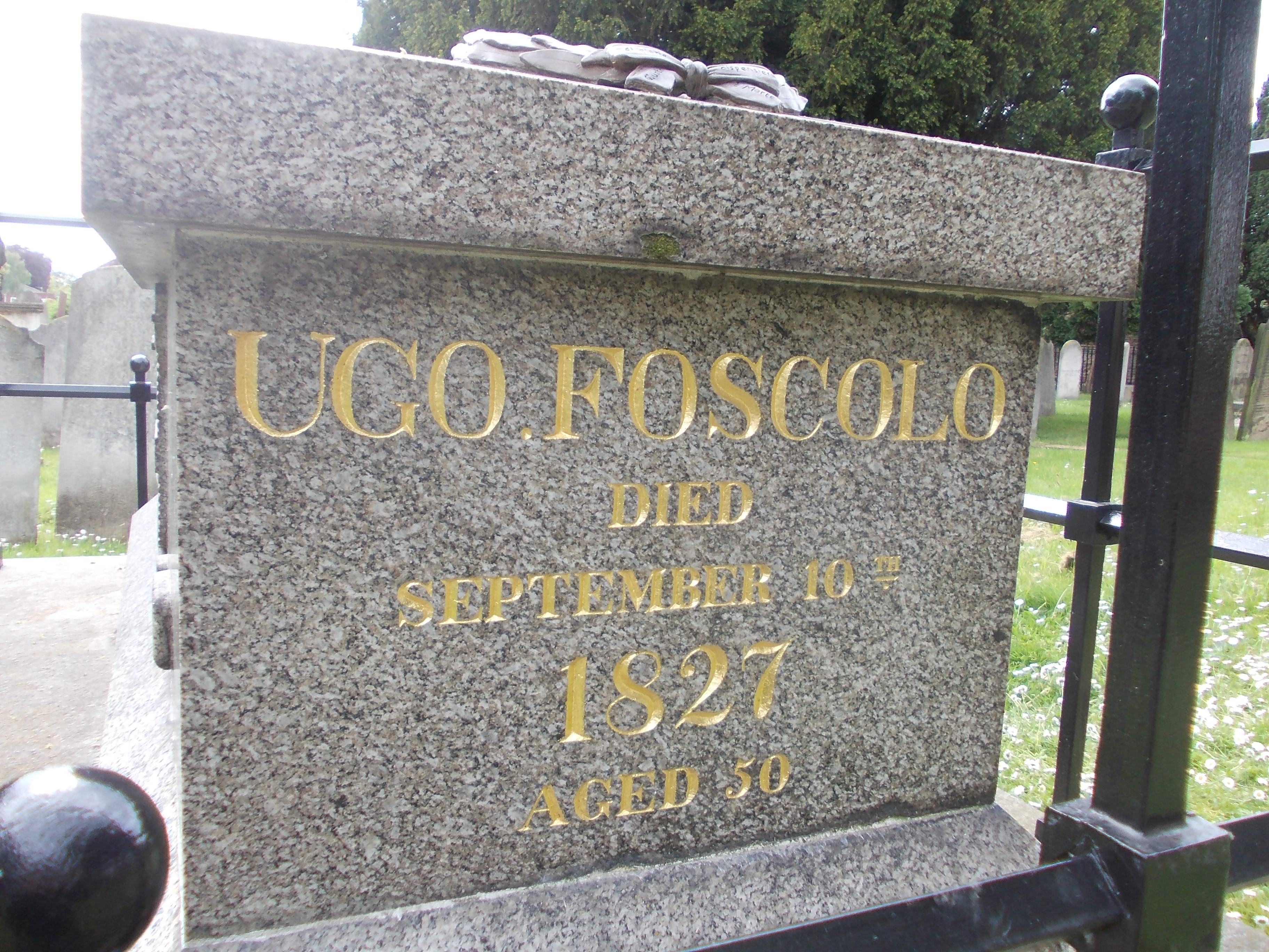 Memorial to Ugo Foscolo in St Nicholas Churchyard, Chiswick. End view with incised lettering "Ugo Foscolo died September 10th 1827 aged 50"